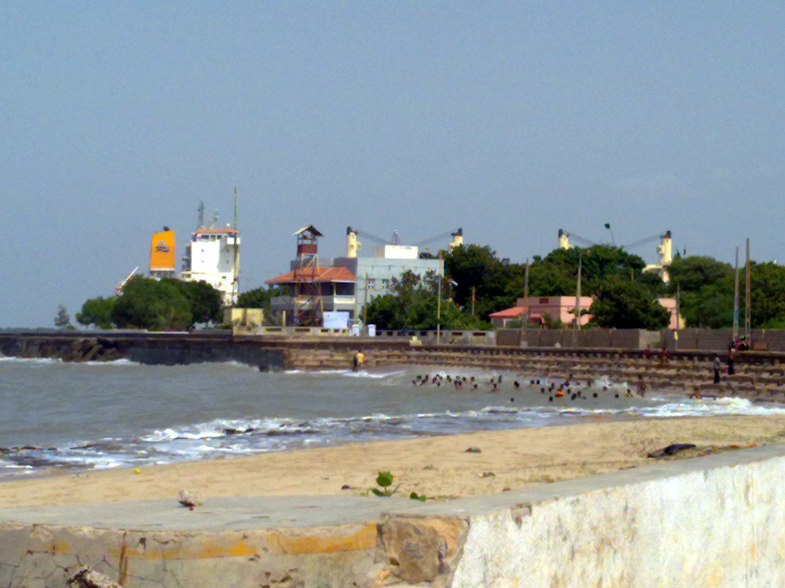 View of Okha port in Gujrat.